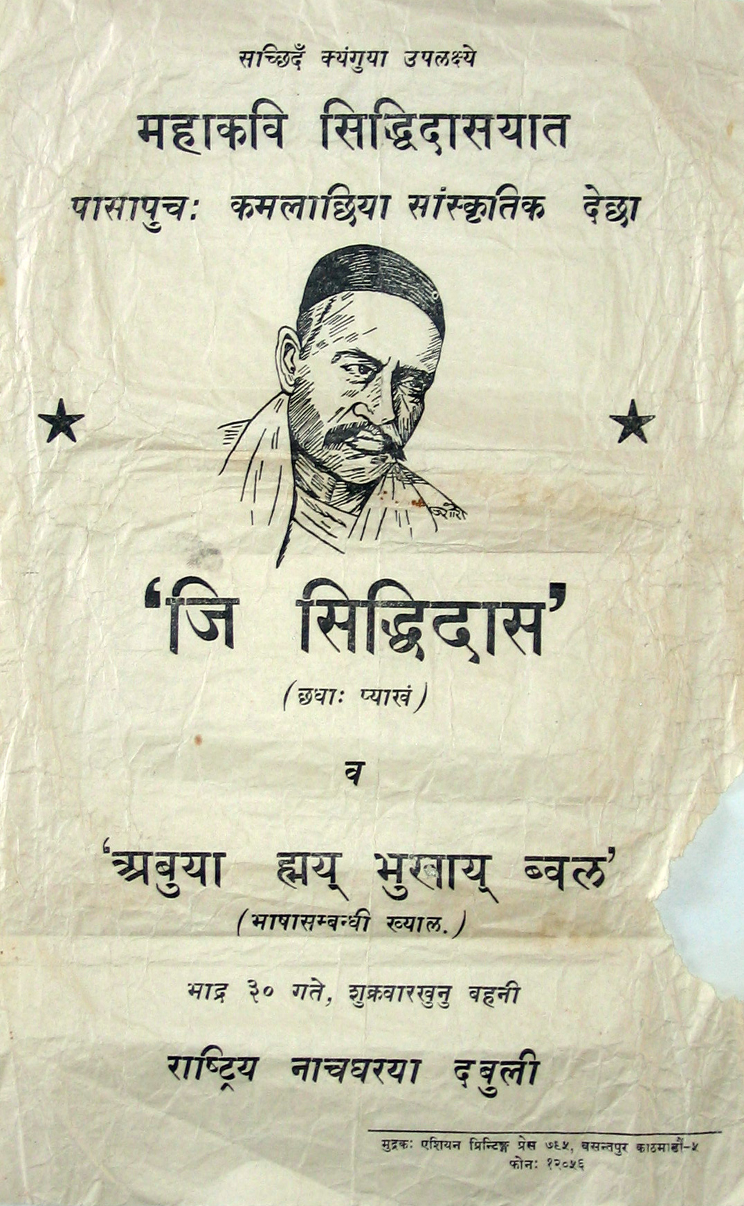 Scan of pamphlet advertising drama performance to celebrate birth centenary of Nepal Bhasa poet Siddhidas Mahaju in 1967.